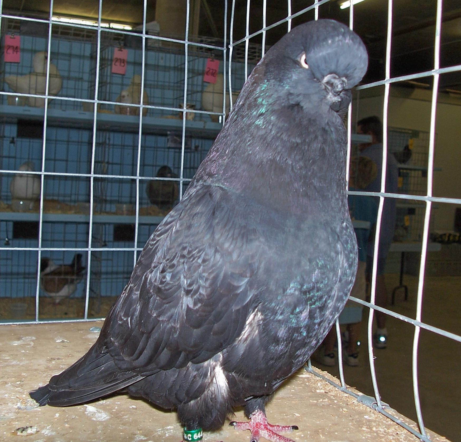 Champion English Long Face Tumbler at Queensland State Show 2008. This bird is a young hen owned by Jeff Krahenbring.